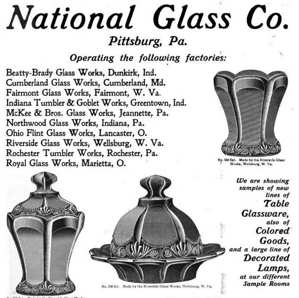 This is an advertisement for National Glass Company, a tableware glass trust that went bankrupt in 1907. The advertisement is from 1903.